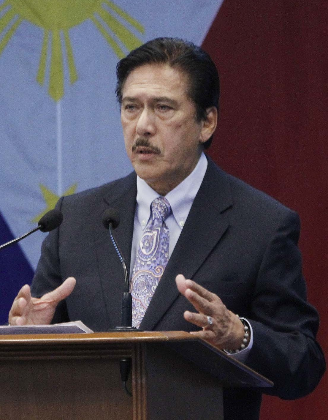 New Senate President Vicente C. Sotto III delivers his acceptance speech at the Plenary Hall of Senate in Pasay City on Monday (May 21, 2018)